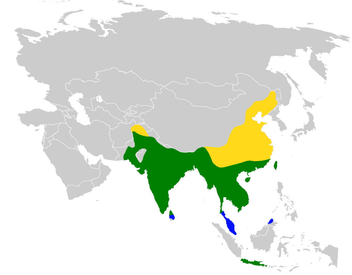 Distribution map of the Black Drongo (Dicrurus macrocercus). Yellow: breeding Green: year-round Blue: nonbreeding (winter visitor) Source: Handbook of the Birds of the World; IUCN